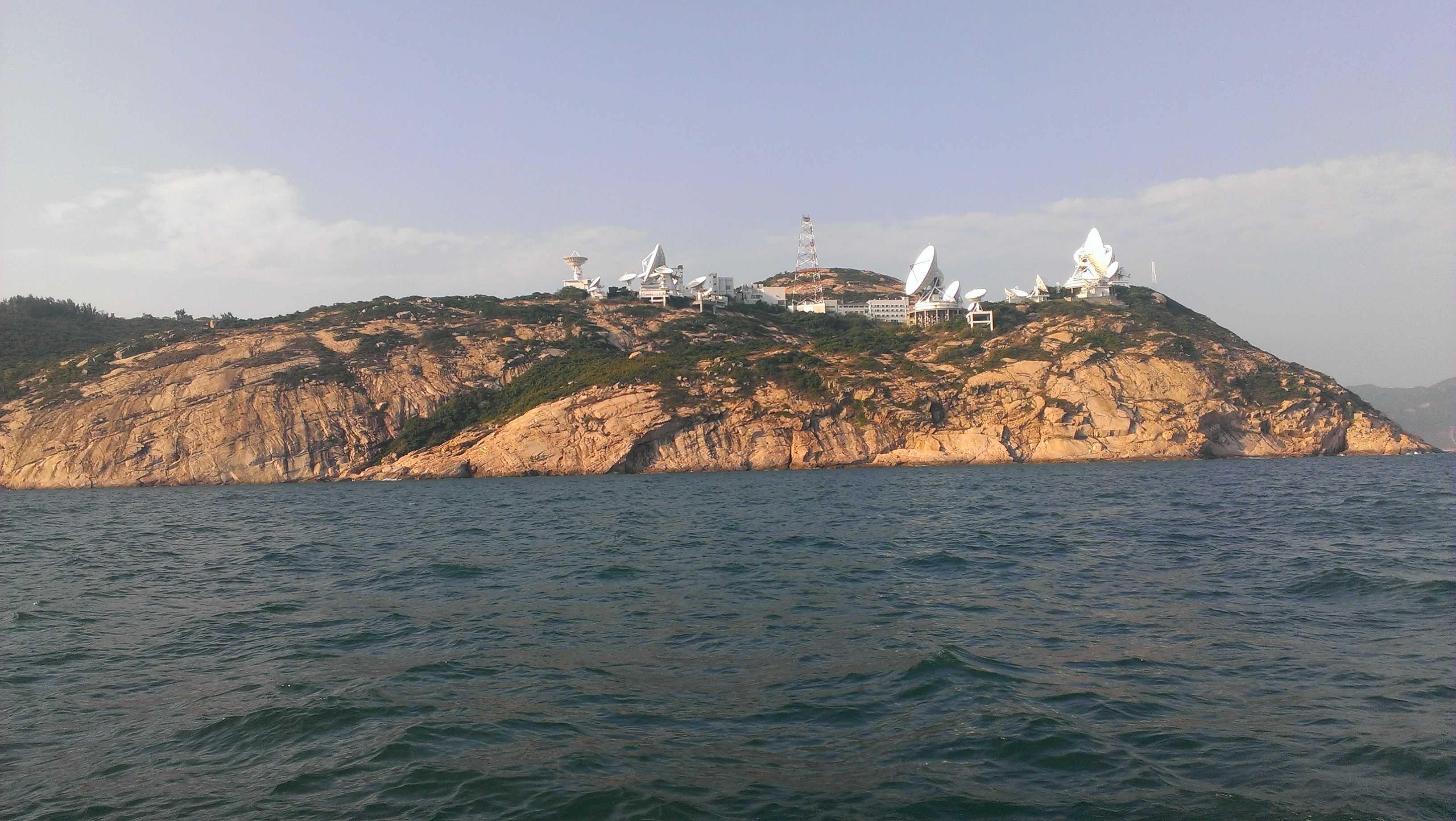 Stanley Earth Station near Cape D'Aguilar as seen from the South off the coast.